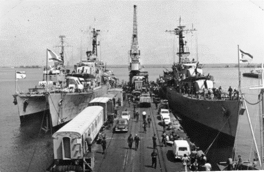 The destroyers of the Israeli Navy getting ready for the Six Day War